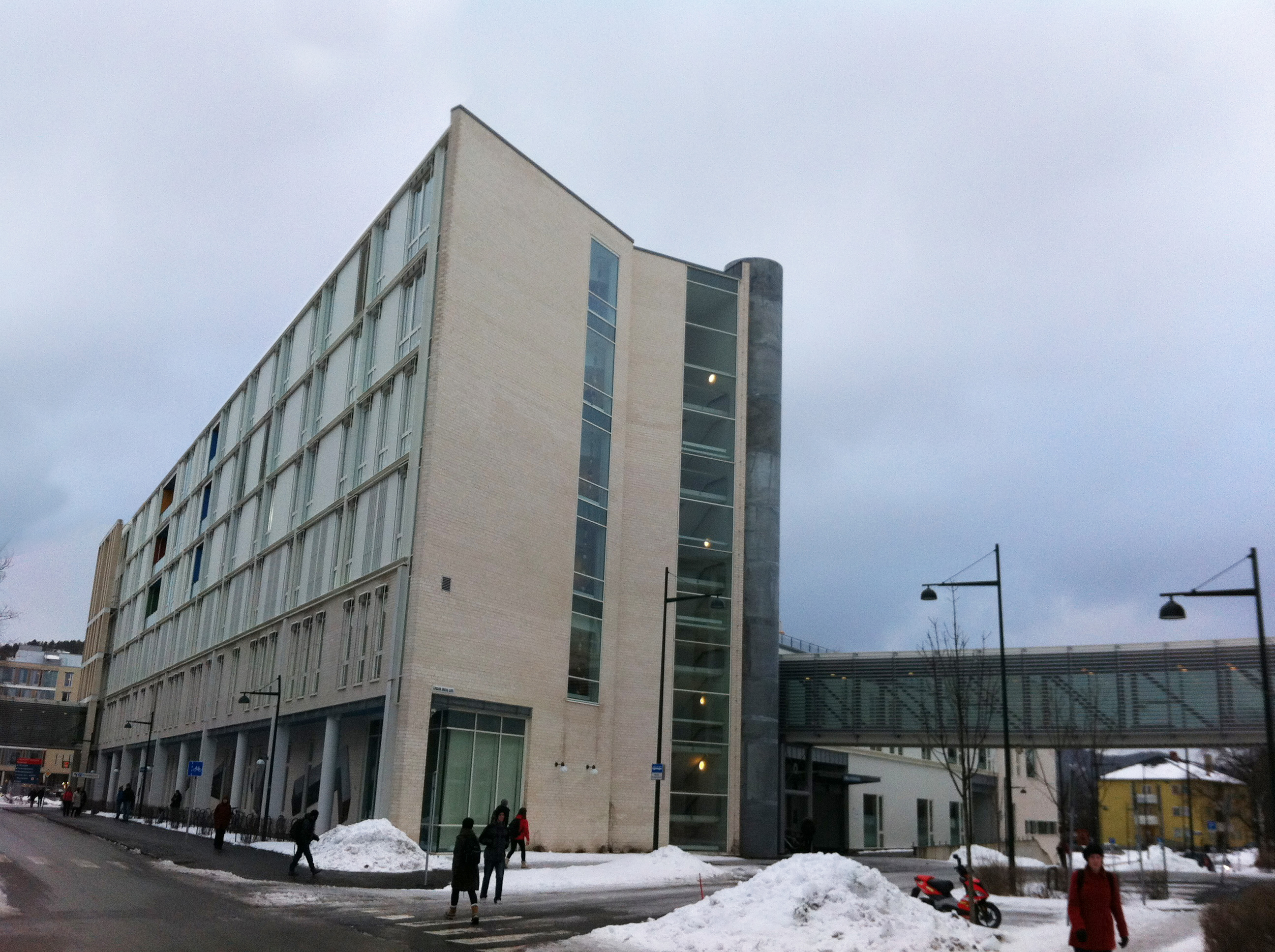 "Dpt. of neurology, western wing", one of the buildings at St. Olavs hospital in Trondheim, Norway. The buildings in the first construction stage of the hospital were awarded the municipality's architectural tradition prize 2007